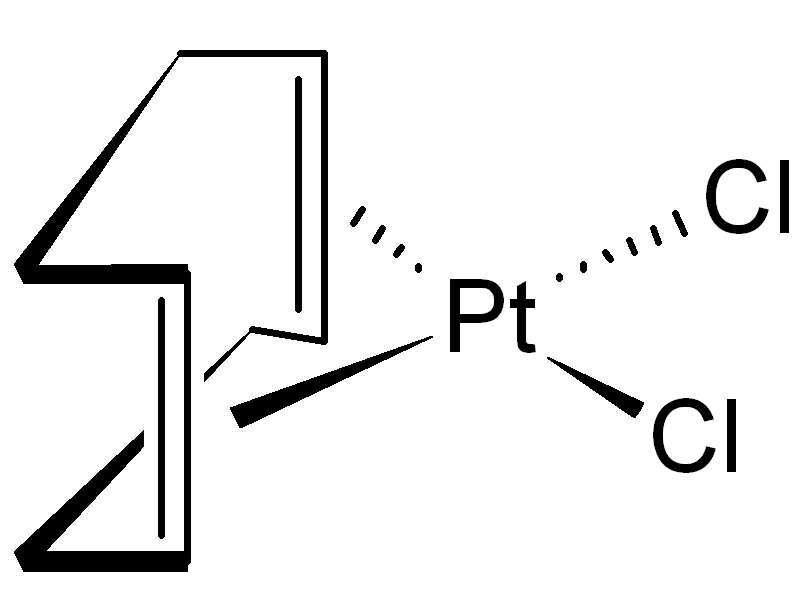 Dichloro(cyclo-1,5-octadiene)platinum(II)